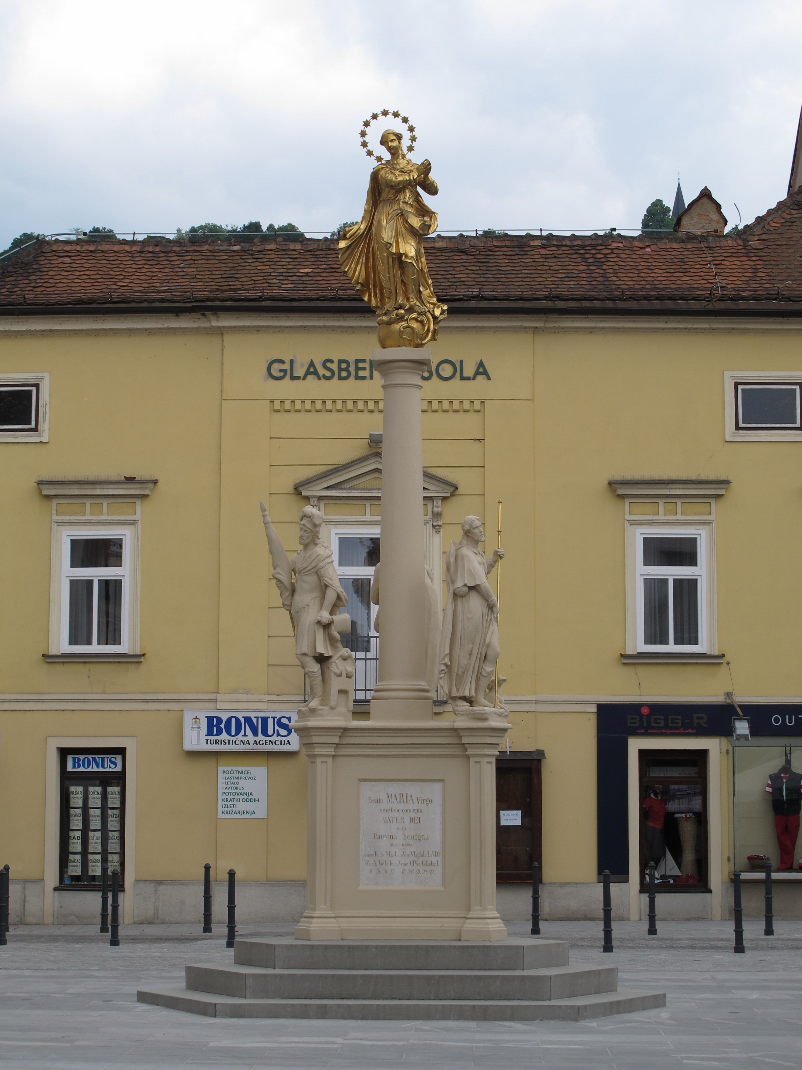 Hl. Maria